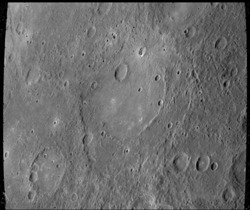 Image Number: 0027359GMT: 1974:088:19:02:14Start Time: 1974-03-29T19:02:14.343ZLatitude: -8.38° to 7.18°Longitude: 29.09° to 48.36°Resolution (meters per pixel): 577Incidence Angle: 61.83°Emission Angle: 46.28°Phase Angle: 103.49°Homer basin at center, with Dominici crater near top, and Titian in lower left.